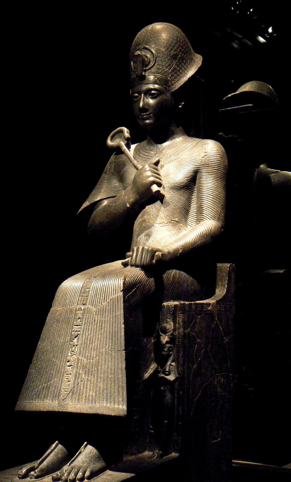 Statue of a young Ramesses II in the Egyptian Museum of Turin. museoegizio.it N. Inv. C. 1380